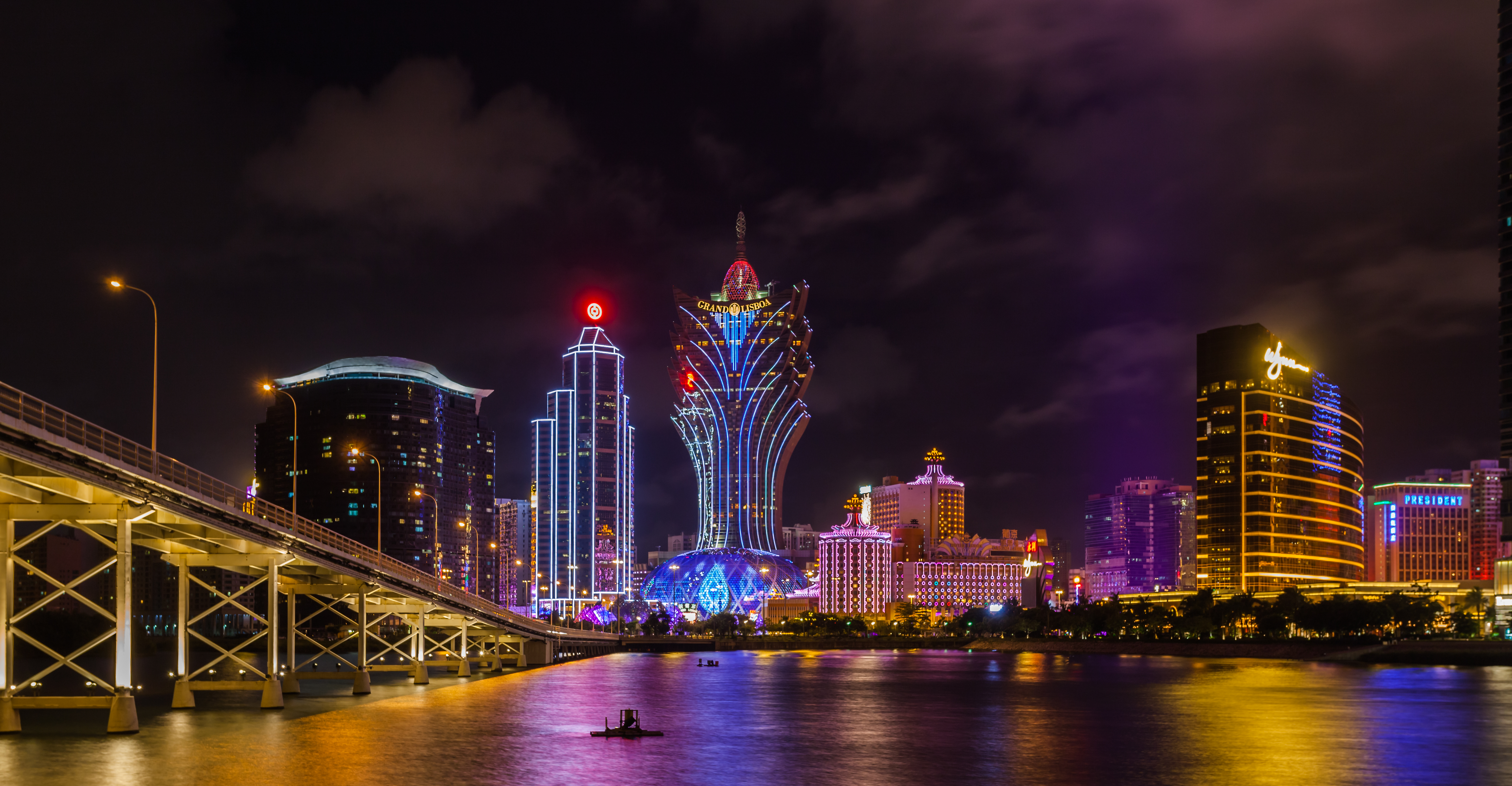 Nam Van Lake, Macau